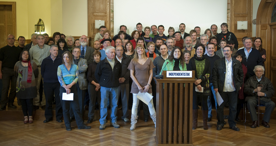 Presentation of Independentistak, the pro-independence basque citizen movement.